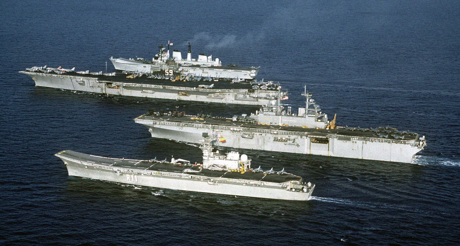 Four ships from three nations sail together during the NATO exercise "Display Determination '91". The ships are, from front to back: the Spanish aircraft carrier Principe-de-Asturias (R11), the U.S. Navy amphibious assault ship USS Wasp (LHD-1), the aircraft carrier USS Forrestal (CV-59), and the (smaller) British aircraft carrier HMS Invincible (R05).